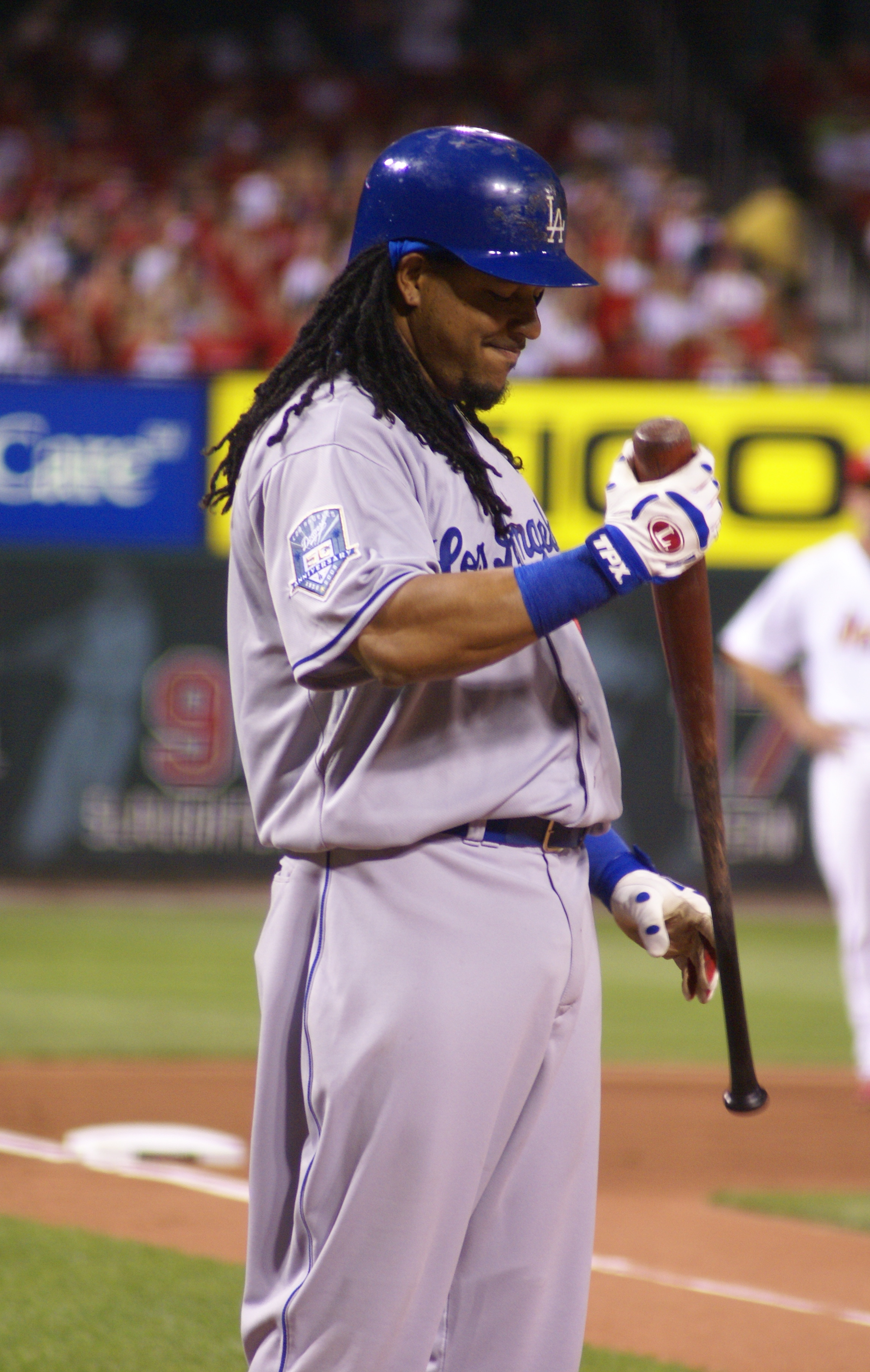 Manny Ramirez on August 5, 2008